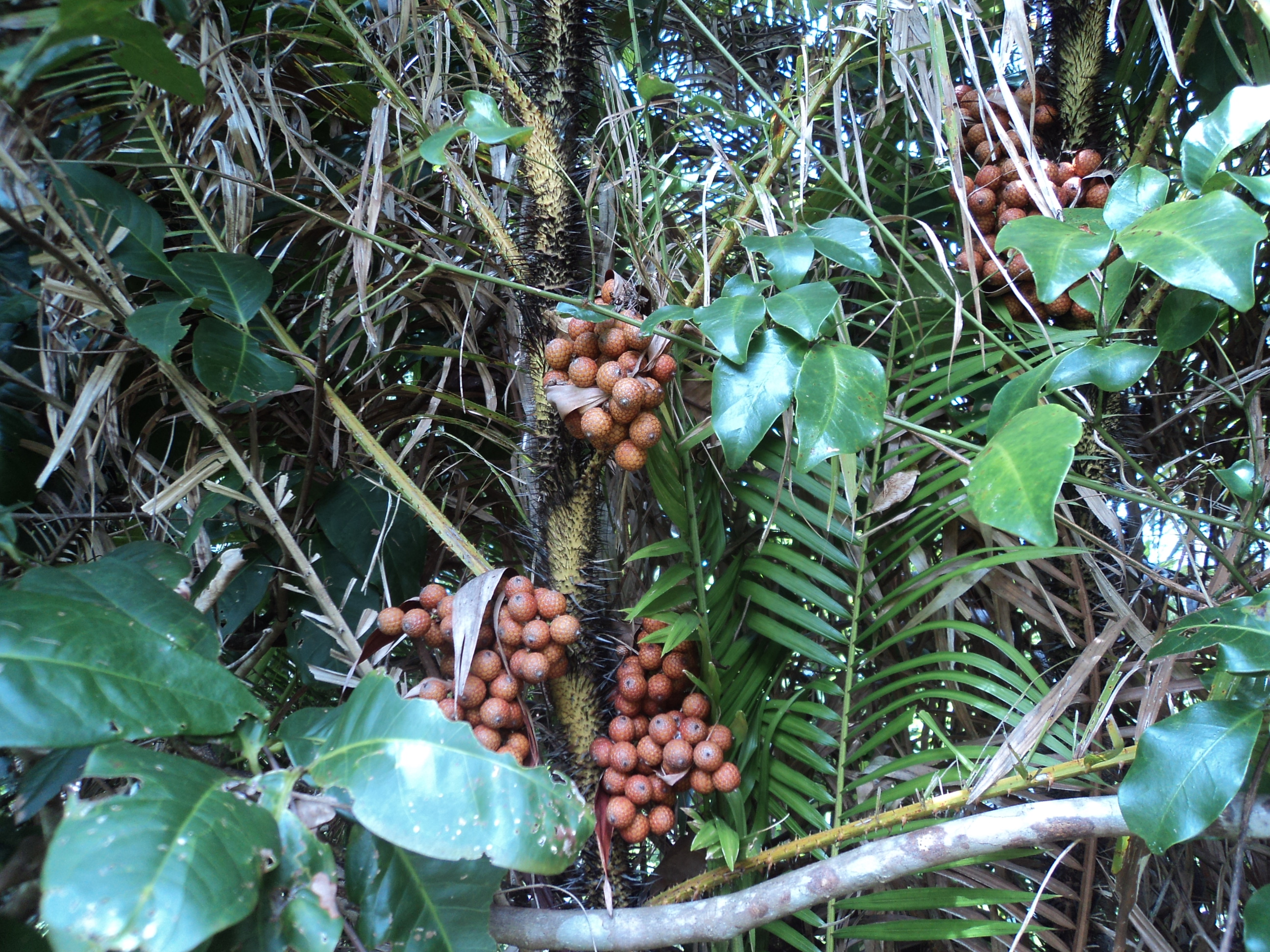 Salak Fruits in Viqueque (possibly misidentified; perhaps a species of Calamus)